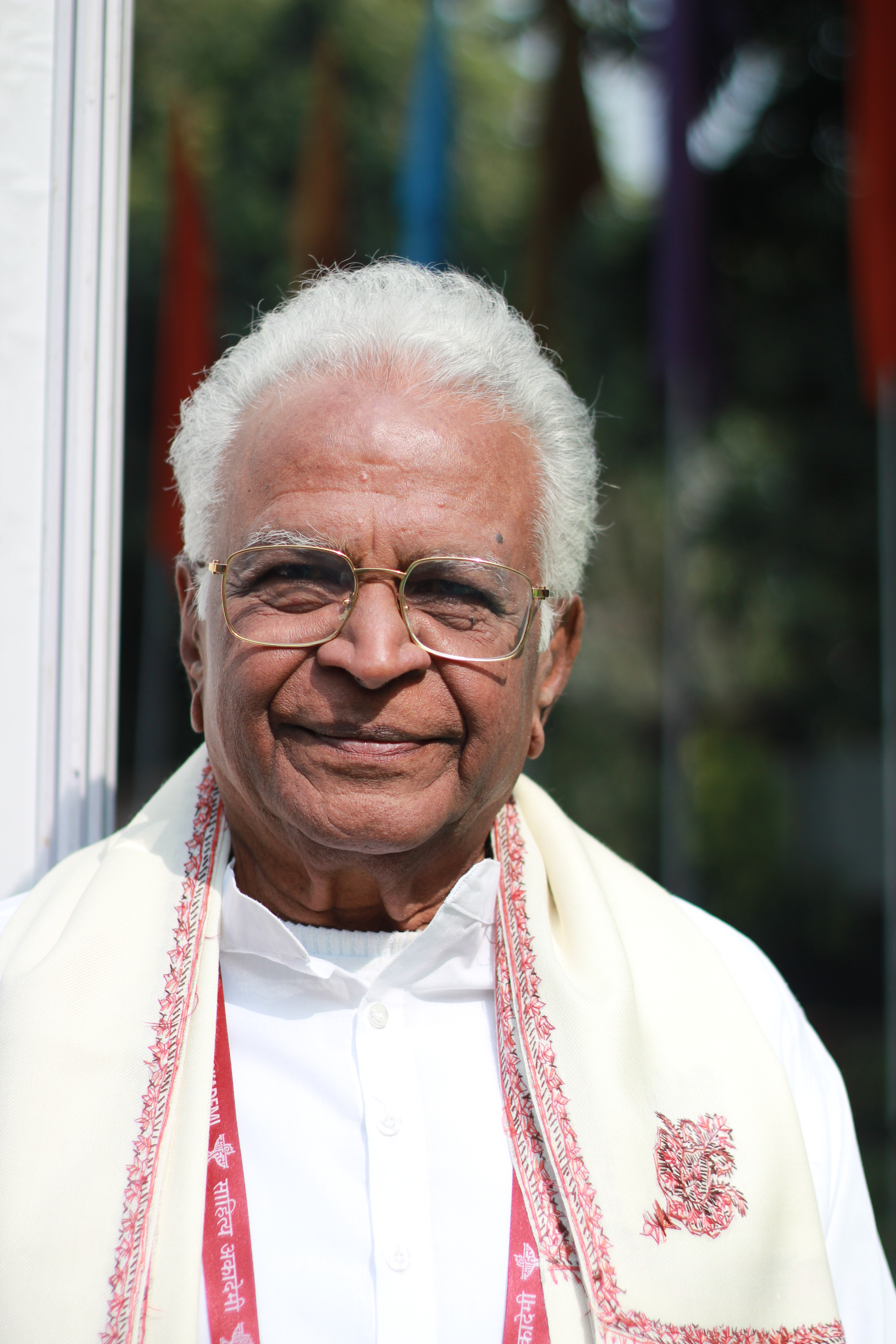 Kolakaluri Enoch Telegu write Sahitya Akademi award winner